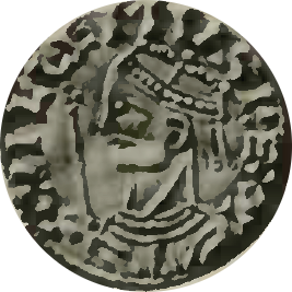 A first series penny of King William I of England, emulating similar late Anglo-Saxon busts and emphasising continuity Minted at Gloucester, moneyer Orderic.